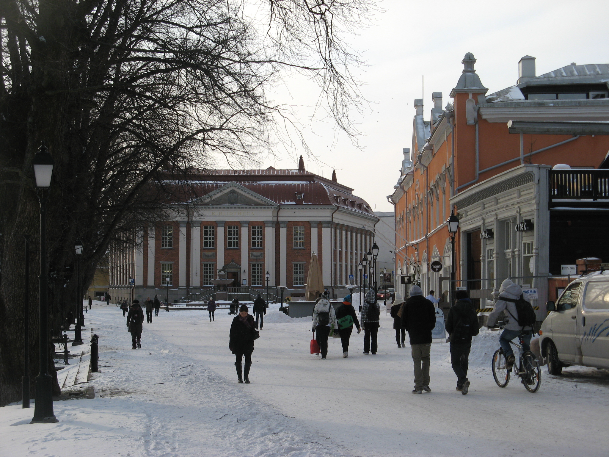 Vähätori (“lesser square”) in Turku. The Aura river is behind the trees to the left, the city library in the background, the Ingman mansion to the right.